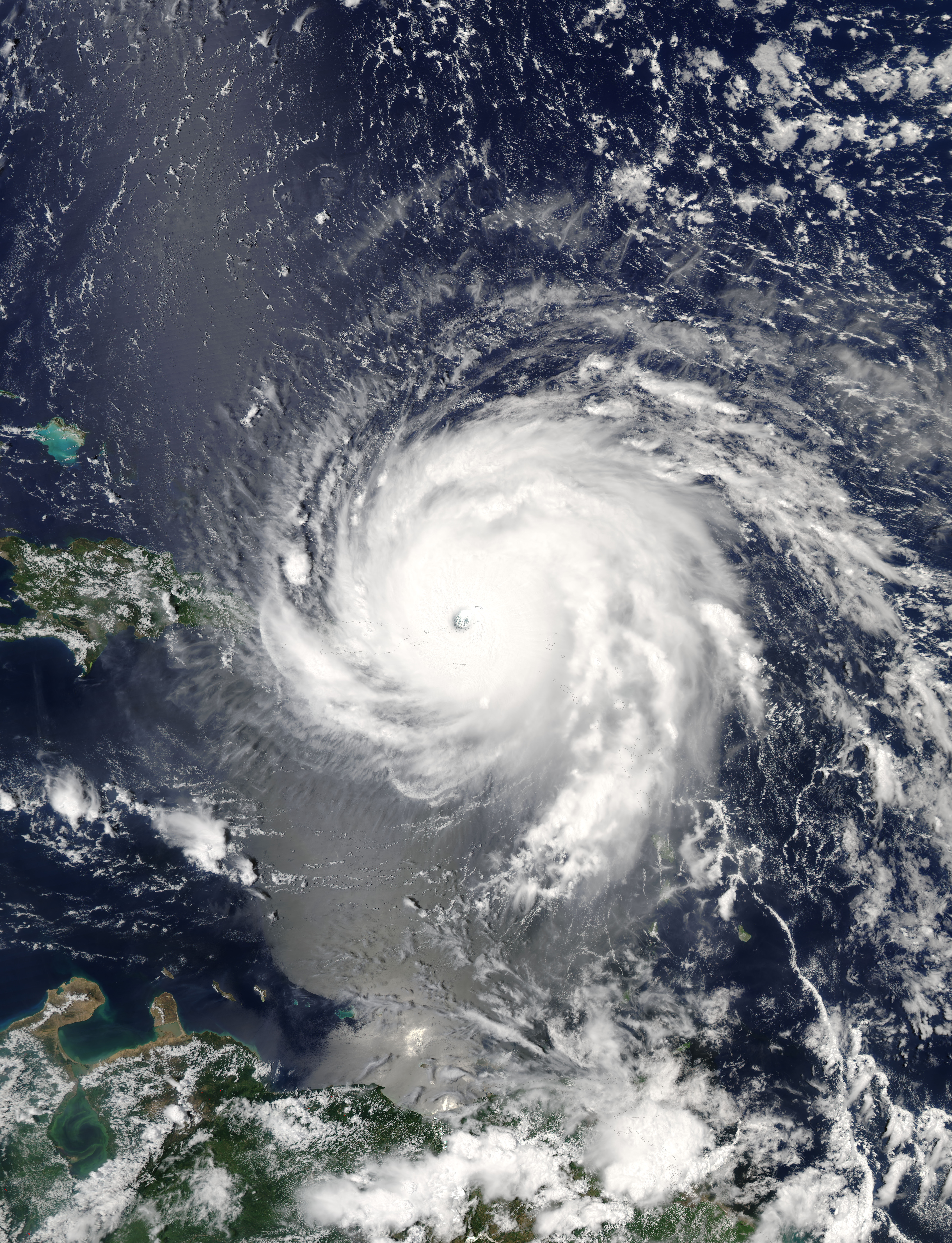 Hurricane Irma over the Virgin Islands at peak intensity on September 6, 2017 as the second most intense Atlantic hurricane on record in terms of sustained winds.